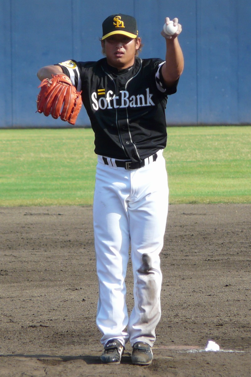 Yasushi Kamiuchi, pitcher of the Fukuoka SoftBank Hawks, at Nagoya Baseball Stadium.